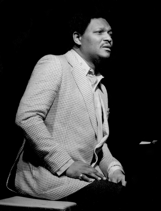 McCoy Tyner, Keystone Korner, San Francisco CA, March 1981. Photo by Brian McMillen /